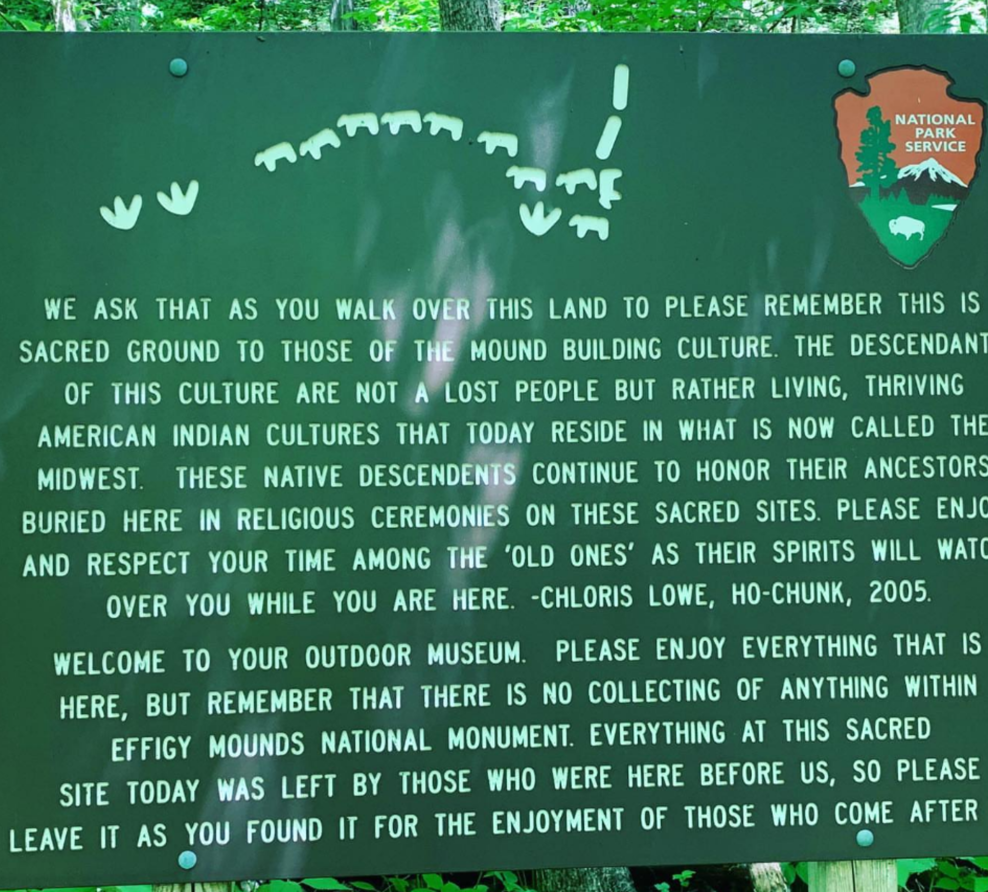 This sign described the sacred nature of the Native American Effigy Mounds at the beginning of the trailhead at Effigy Mounds NM, Iowa. It reads, "We ask that as you walk over this land to please remember this is sacred ground to those of the mound building culture.The descendants of this culture are not a lost people but rather living, thriving American Indian cultures that today reside in what is now called the Midwest. These native descendents continue to honor their ancestors buried here in religious ceremonies on these sacred site. Please enjoy and respect your time among the 'old ones' as their spirits will watch over you while you are here. -Chloris Lowe, Ho-chunk, 2005."